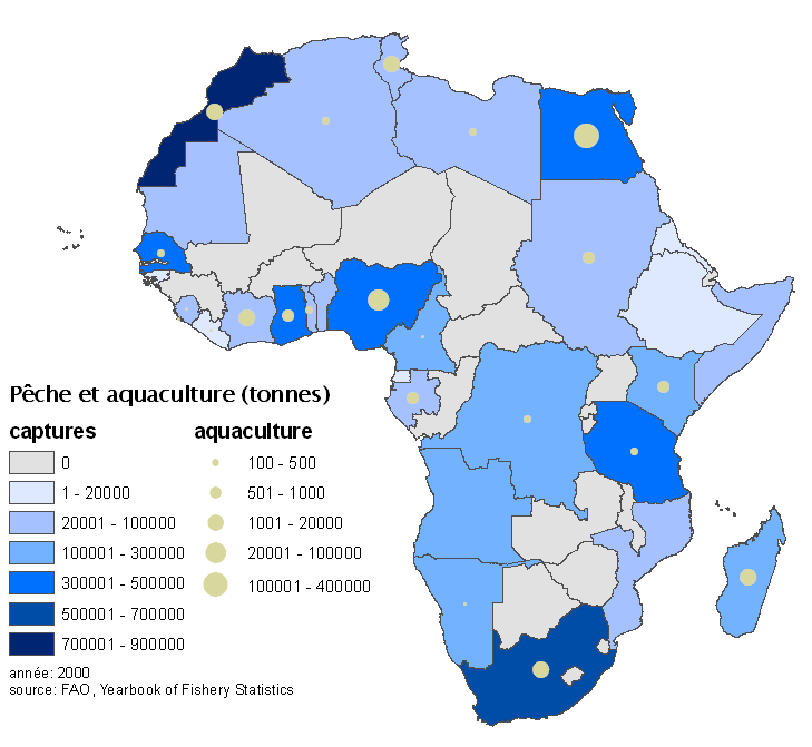 Fishery and aquaculture in Africa.